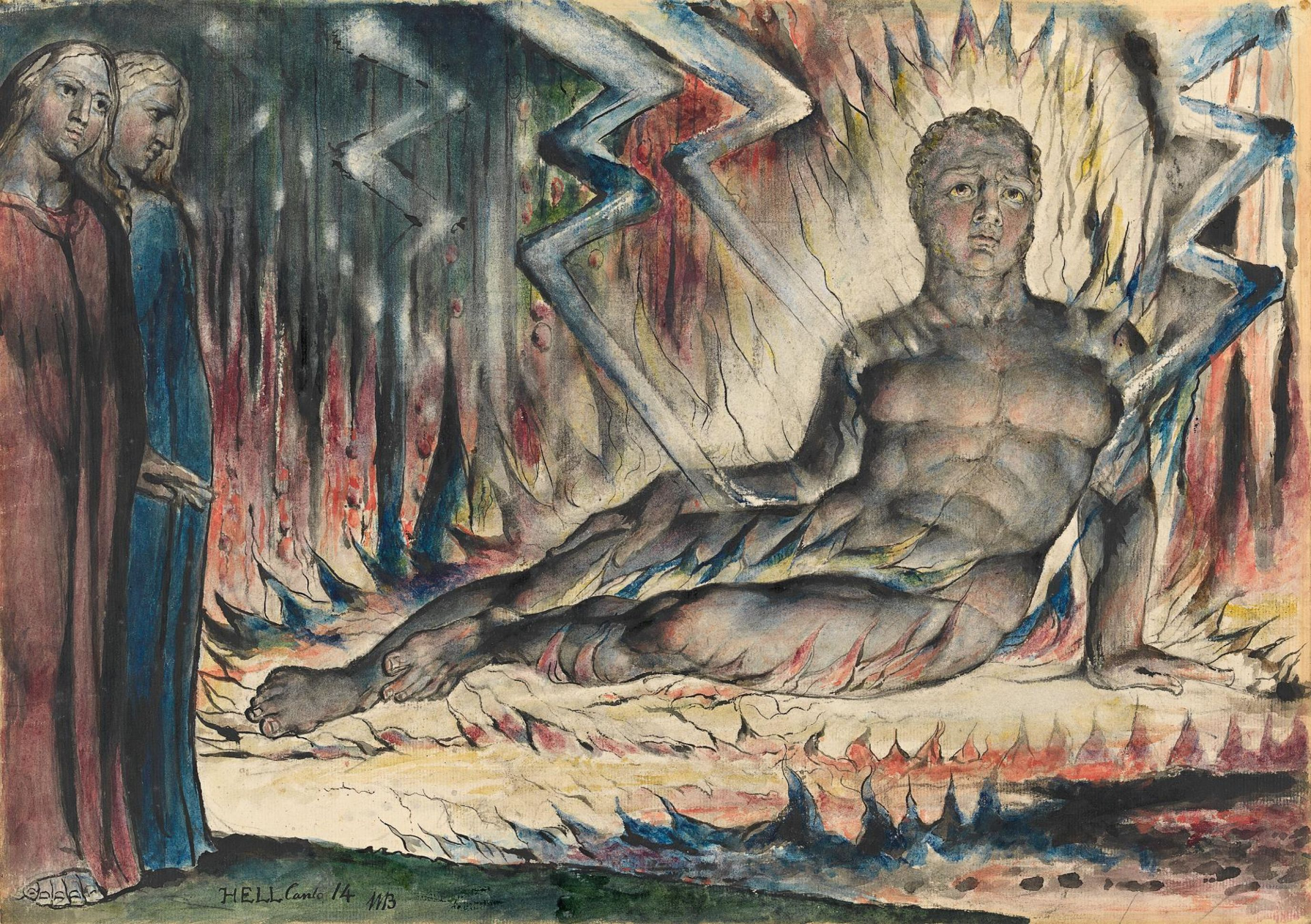 Illustration for Dante’s Hell, chapter XIV: Capaneus.